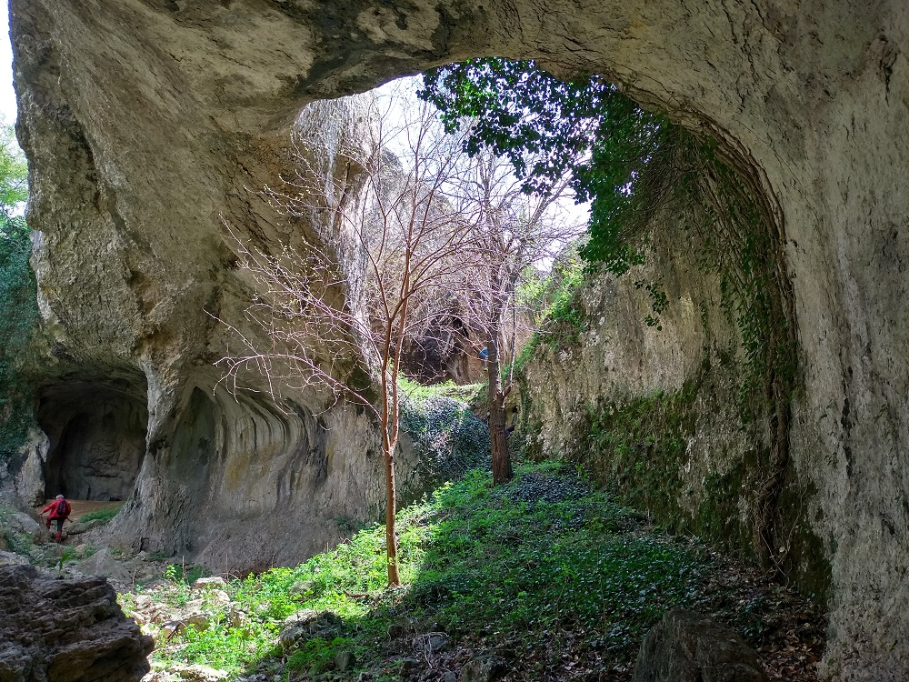 Rock formation near Lilyatche, Bulgaria